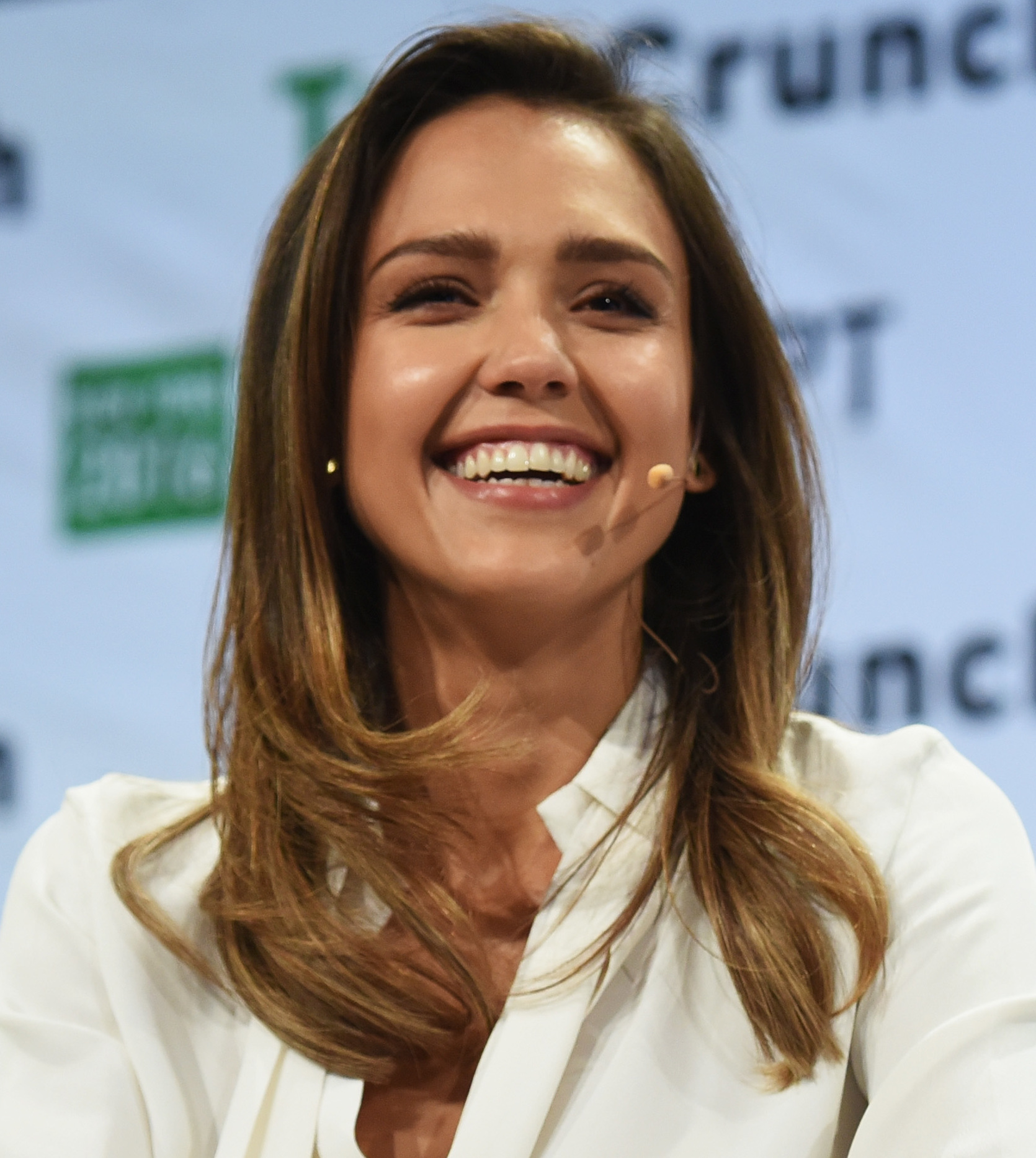 NEW YORK, NY - MAY 11: Founder and COO of The Honest Company Jessica Alba speaks onstage during TechCrunch Disrupt NY 2016 at Brooklyn Cruise Terminal on May 11, 2016 in New York City. (Photo by Noam Galai/Getty Images for TechCrunch)